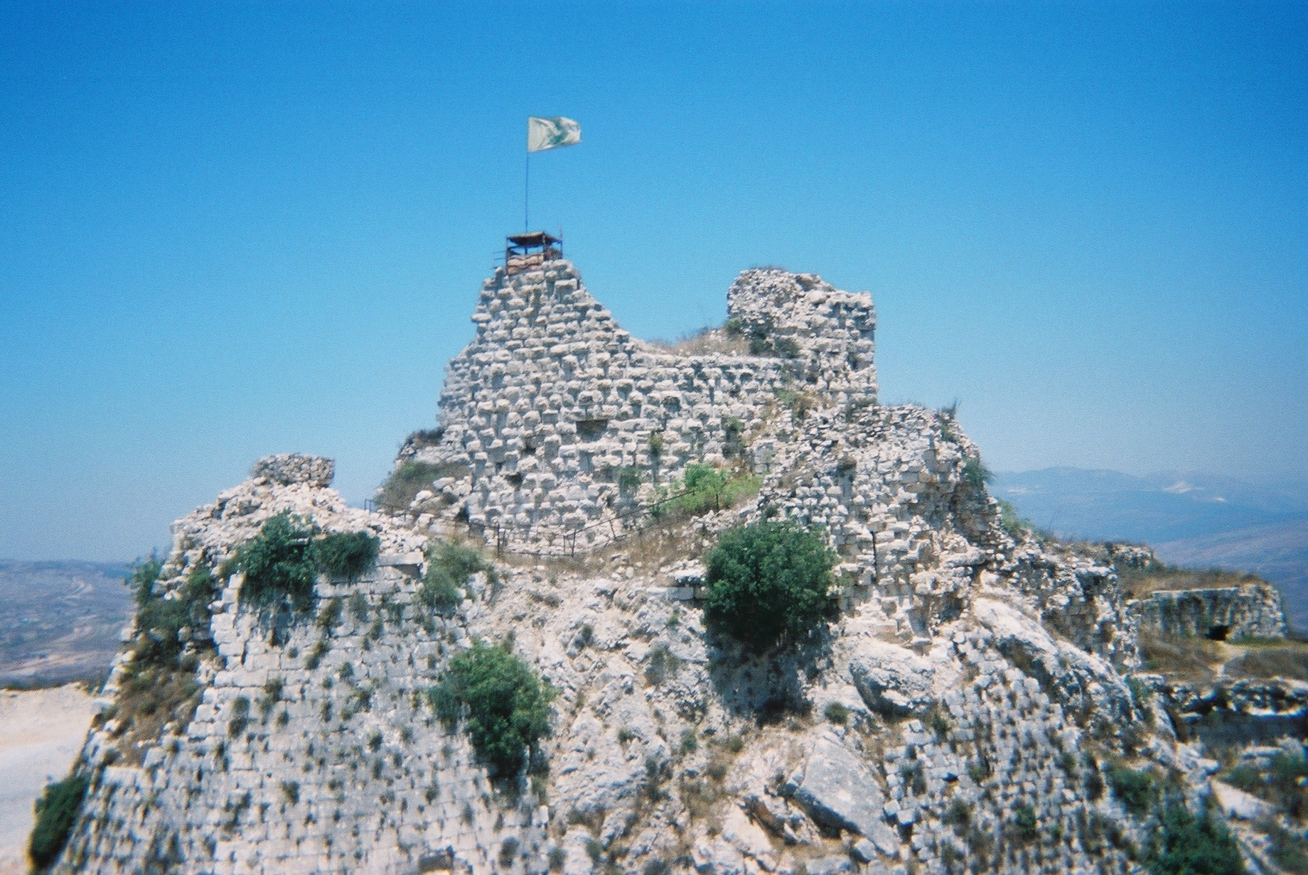 My own work, taken August 2007 with a temporary camera.